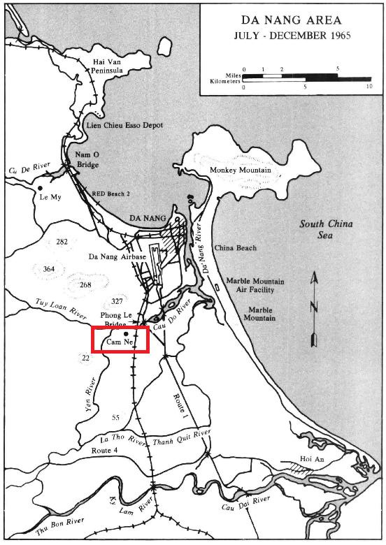 Map of the Da Nang, Vietnam, area showing locations of Marine Corps positions during the period July-December, 1965